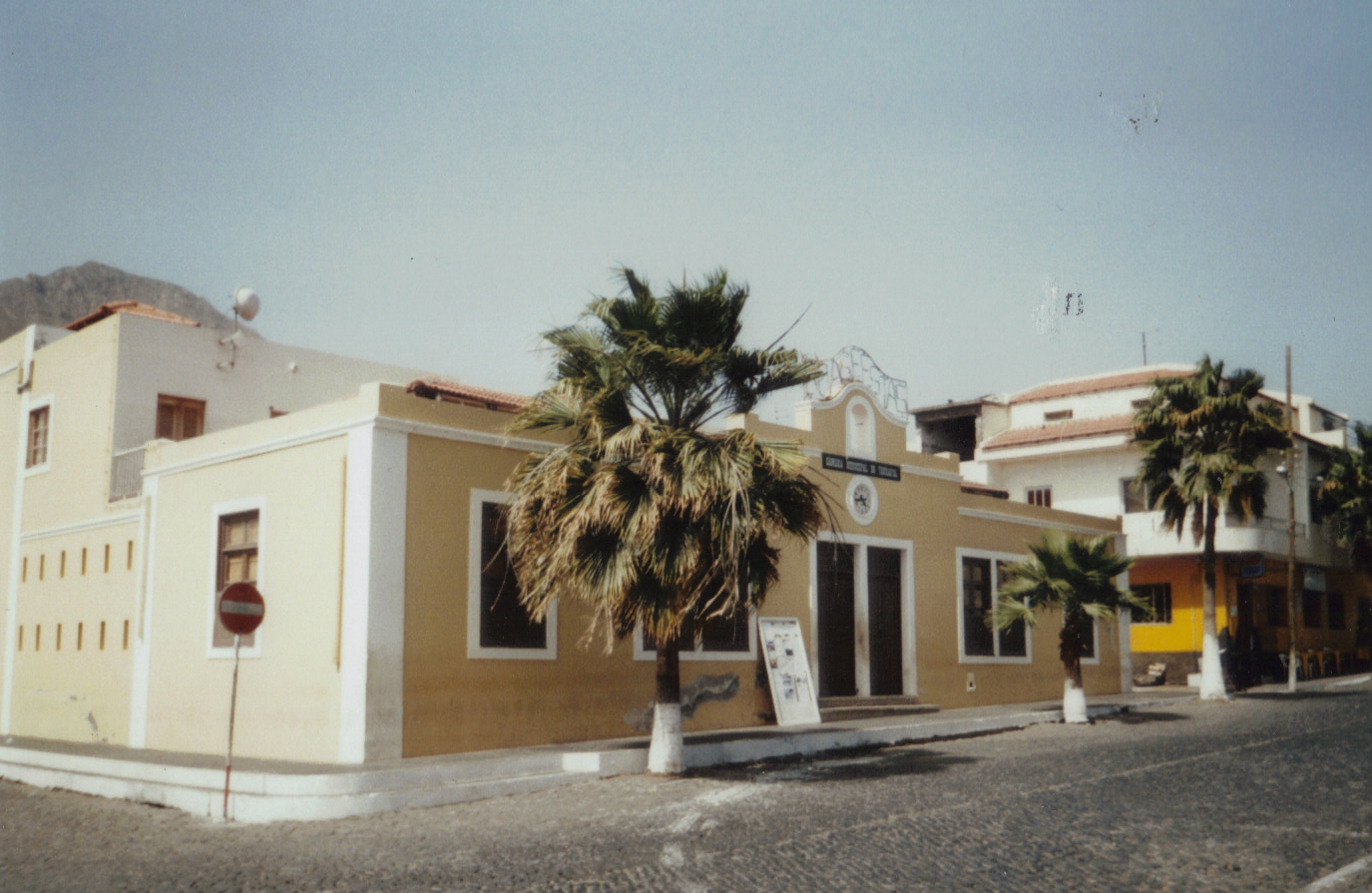 Town Hall, Tarrafal, Cape Verde